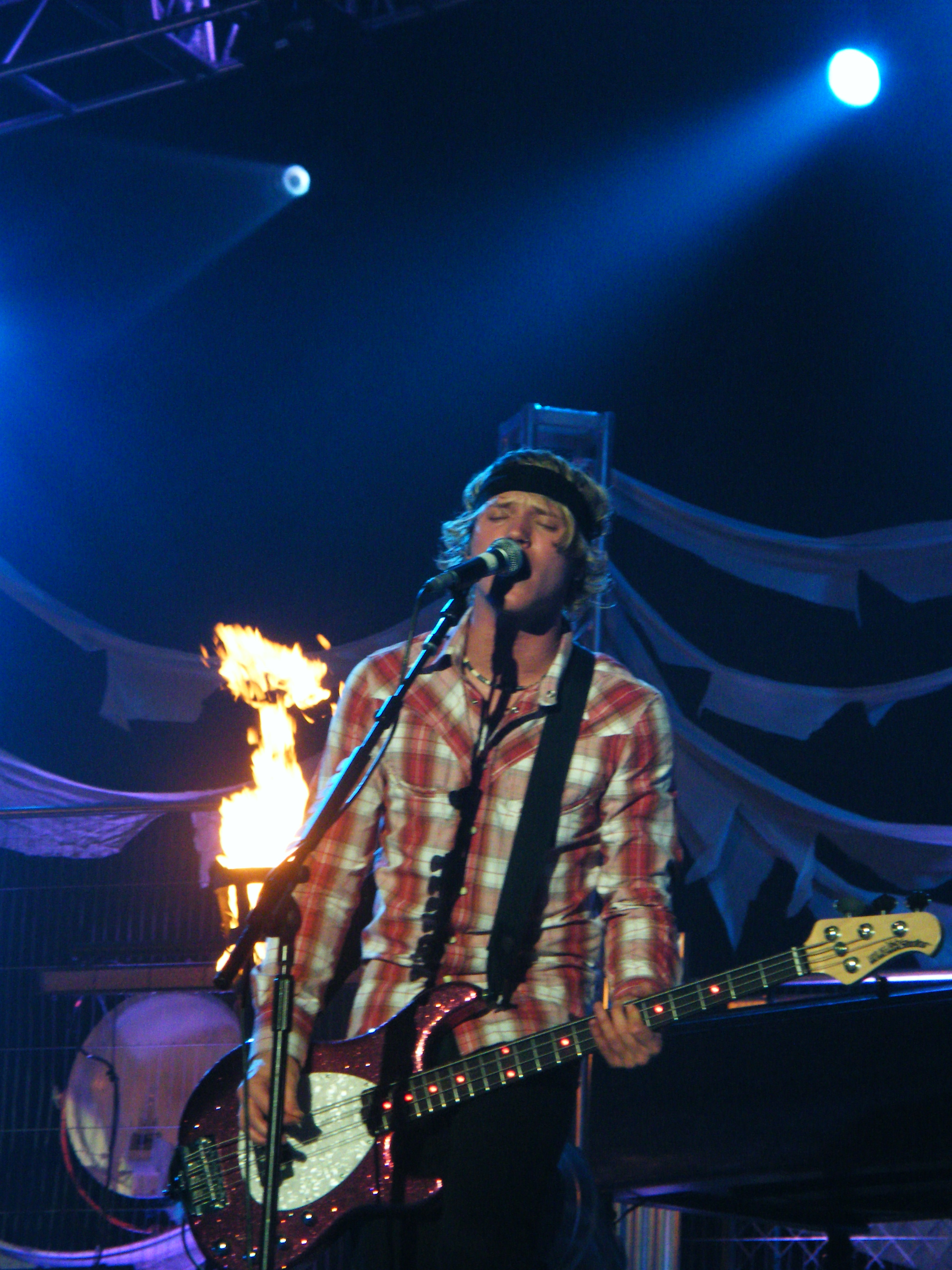 Dougie Poynter, bassit of the band McFly, live, singing backing vocals. Taken at McFly's Radio:ACTIVE Tour in London.